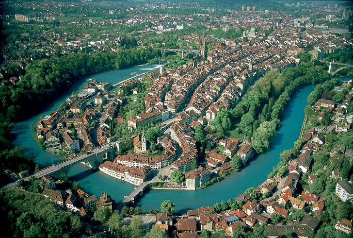 Aerial photo of Bern